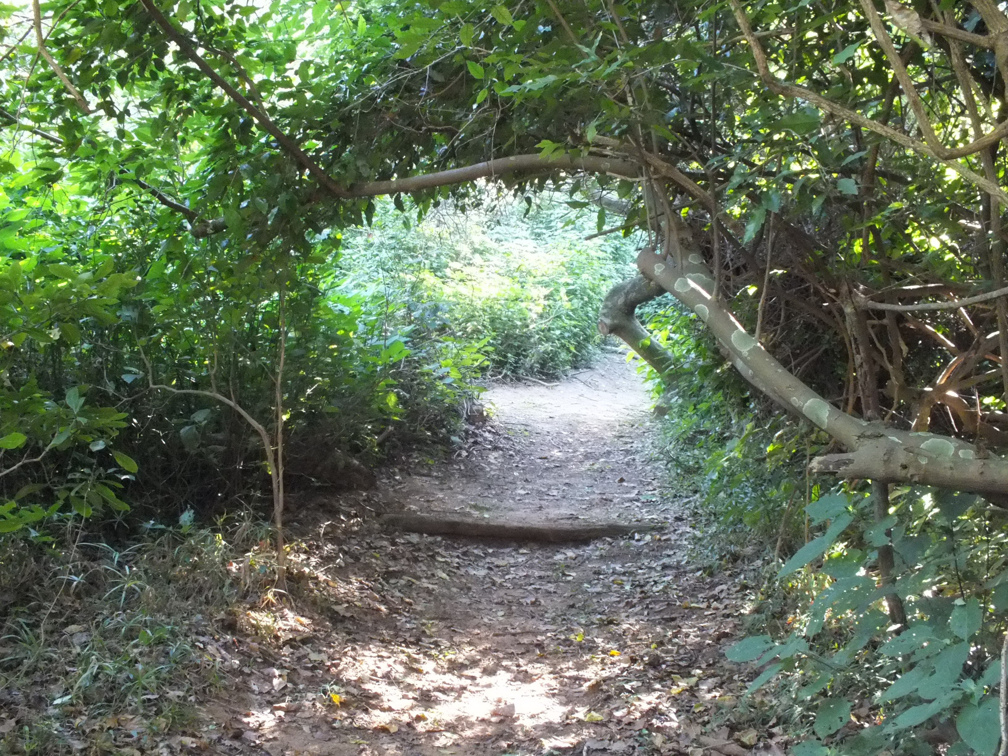 Walking trail in Burman Bush Nature Reserve in Durban, KwaZulu-Natal